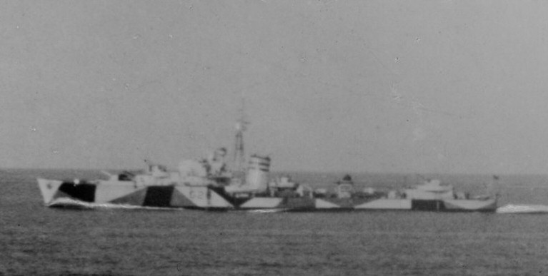 According to original description, HMS Kingston. However, it is not likely, for HMS Kingston had pennant number G64. A number isn't clearly visible, but it can be HMAS Nepal (G25).